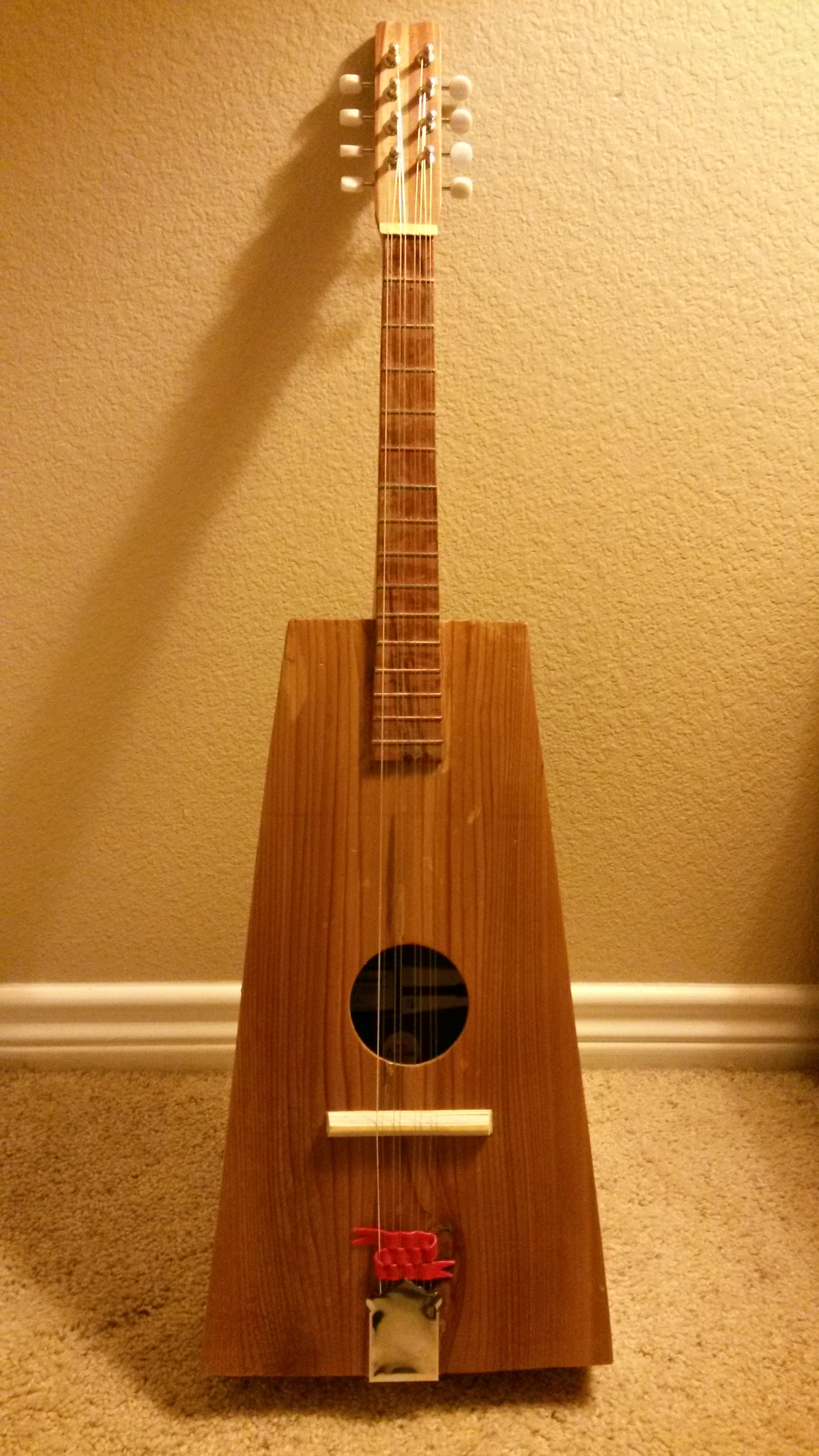 This is a Mayfield guitalin, built 2013.